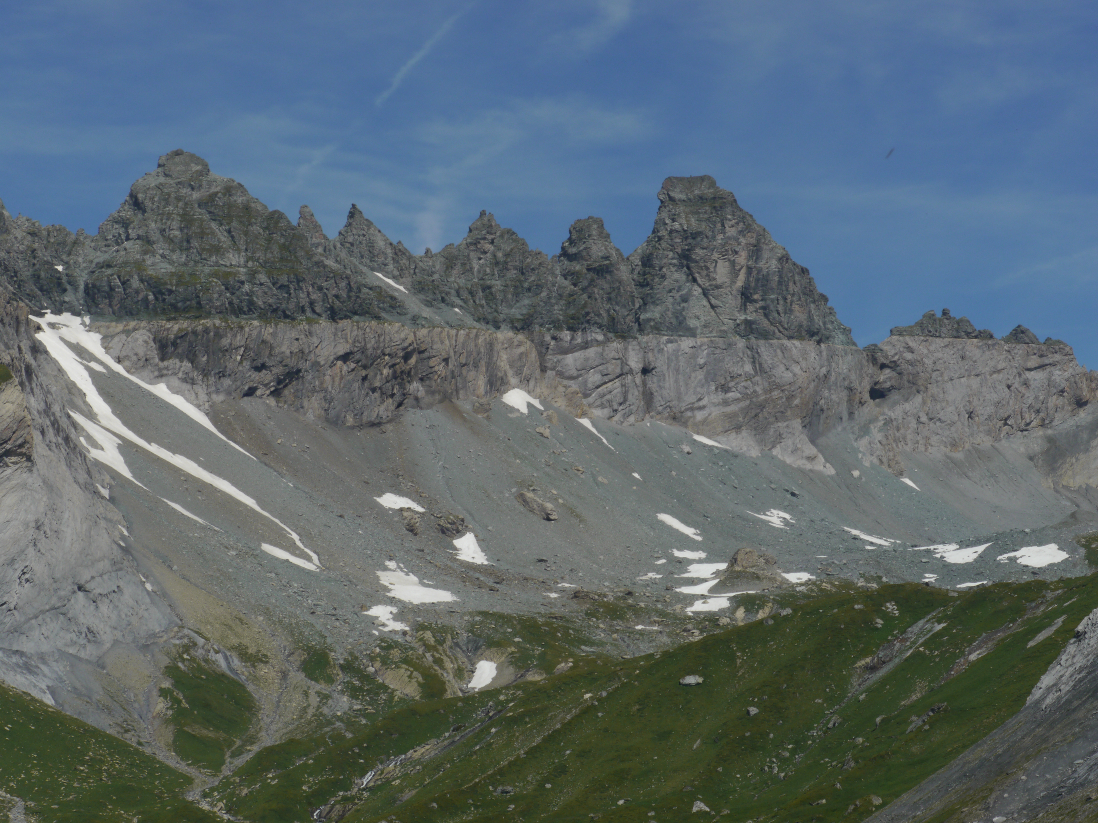 View of the Glarus Thrust (Glarner Hauptüberschiebung) and the Tschingelhörner, in Switzerland, from Plaun Segnas Sut towards the North. Main thrust plane is located between the upper dark units (Verrucano, Permian) and the lighter-colored lower units (Infrahelvetic, Flysch and carbonates). Displacement along the fault is estimated to be around 40-50 km (Pfiffner, 1985). The location is part of the UNESCO World heritage site 'Tektonikarena Sardona'. Credit: Christian Heine (distributed via ).